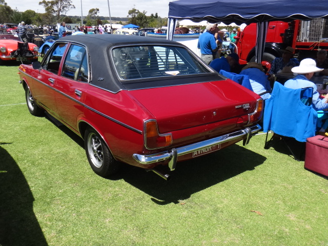 I don't know much about these either, as the Avenger was never offered here in Australia, so I was surprised to see one! Again, Riley will know more about these, as the Avenger was sold in New Zealand.